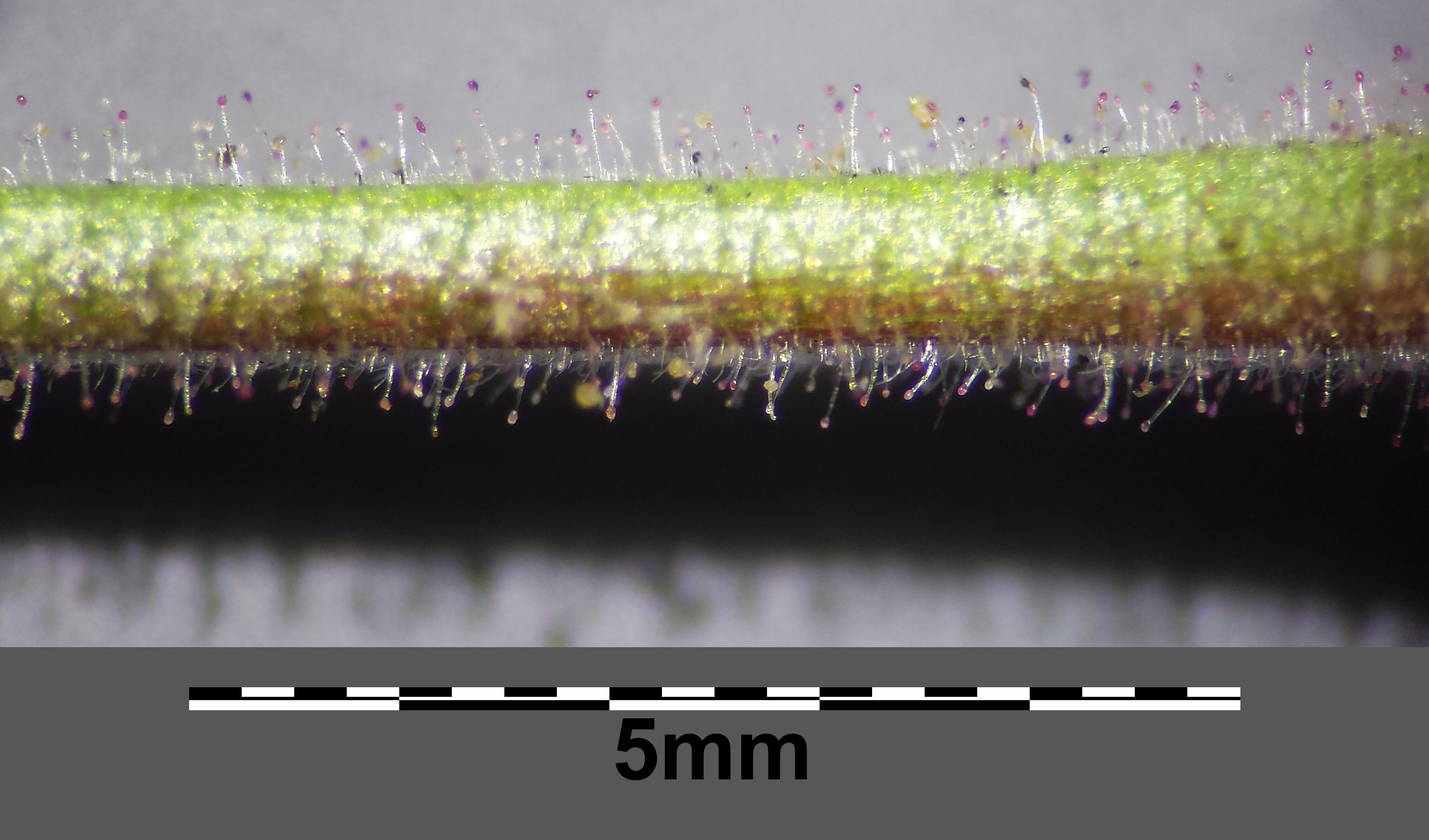 Pedicel with deflexed hairs and glandular hairs above Taxonym: Geranium pratense ss Fischer et al. EfÖLS 2008 ISBN 978-3-85474-187-9 Location: near Niederhollabrunn, district Korneuburg, Lower Austria - ca. 250 m a.s.l. Habitat: wayside